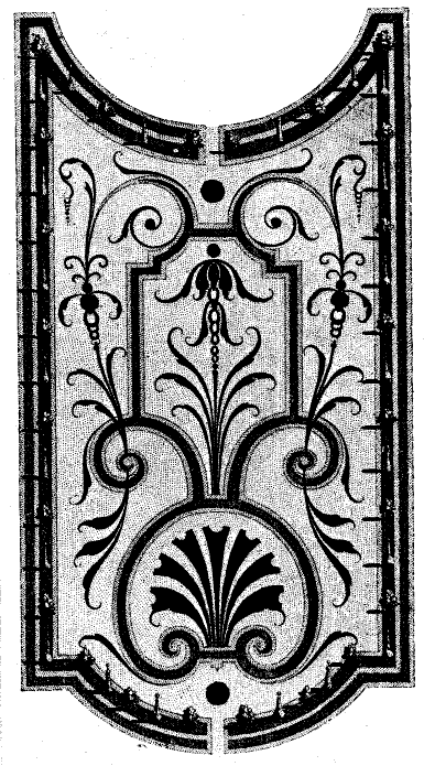 French Parterre Garden around 1700